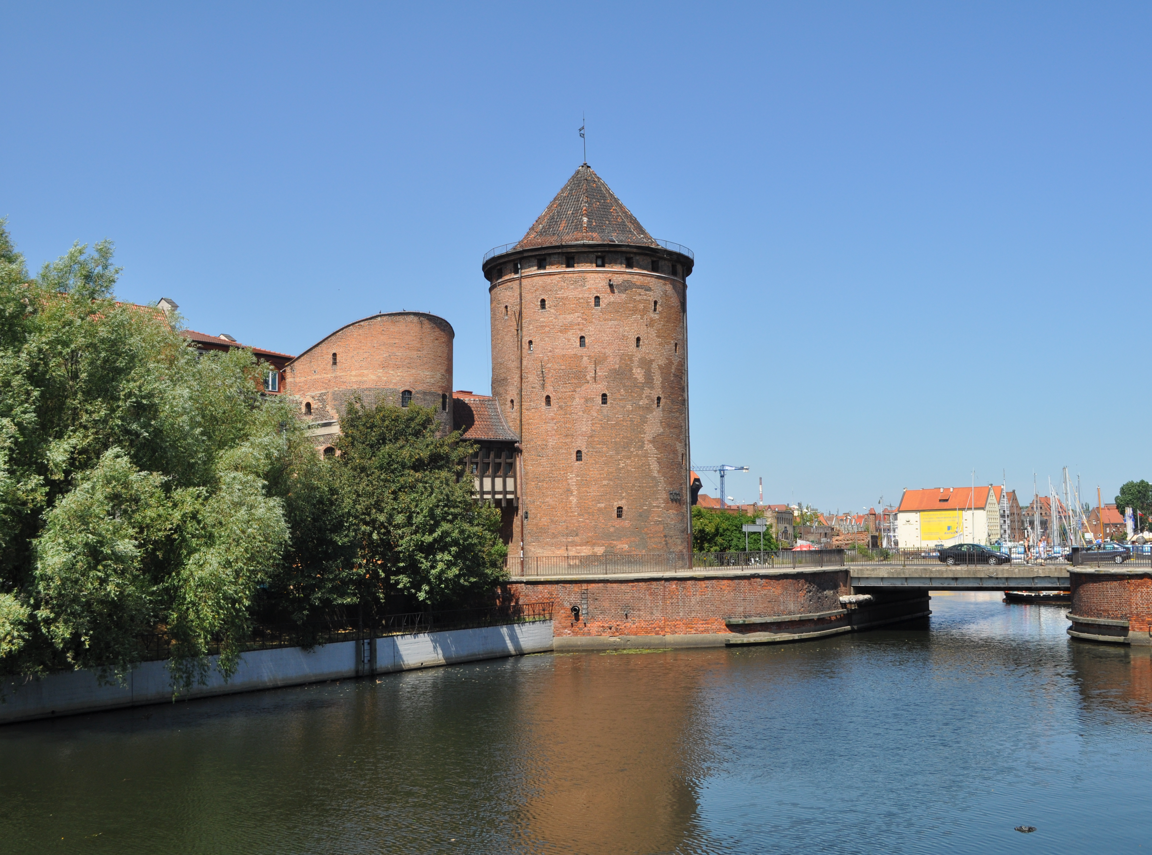 The Stągiewna Gate & The Stągiewny Bridge in Gdańsk.